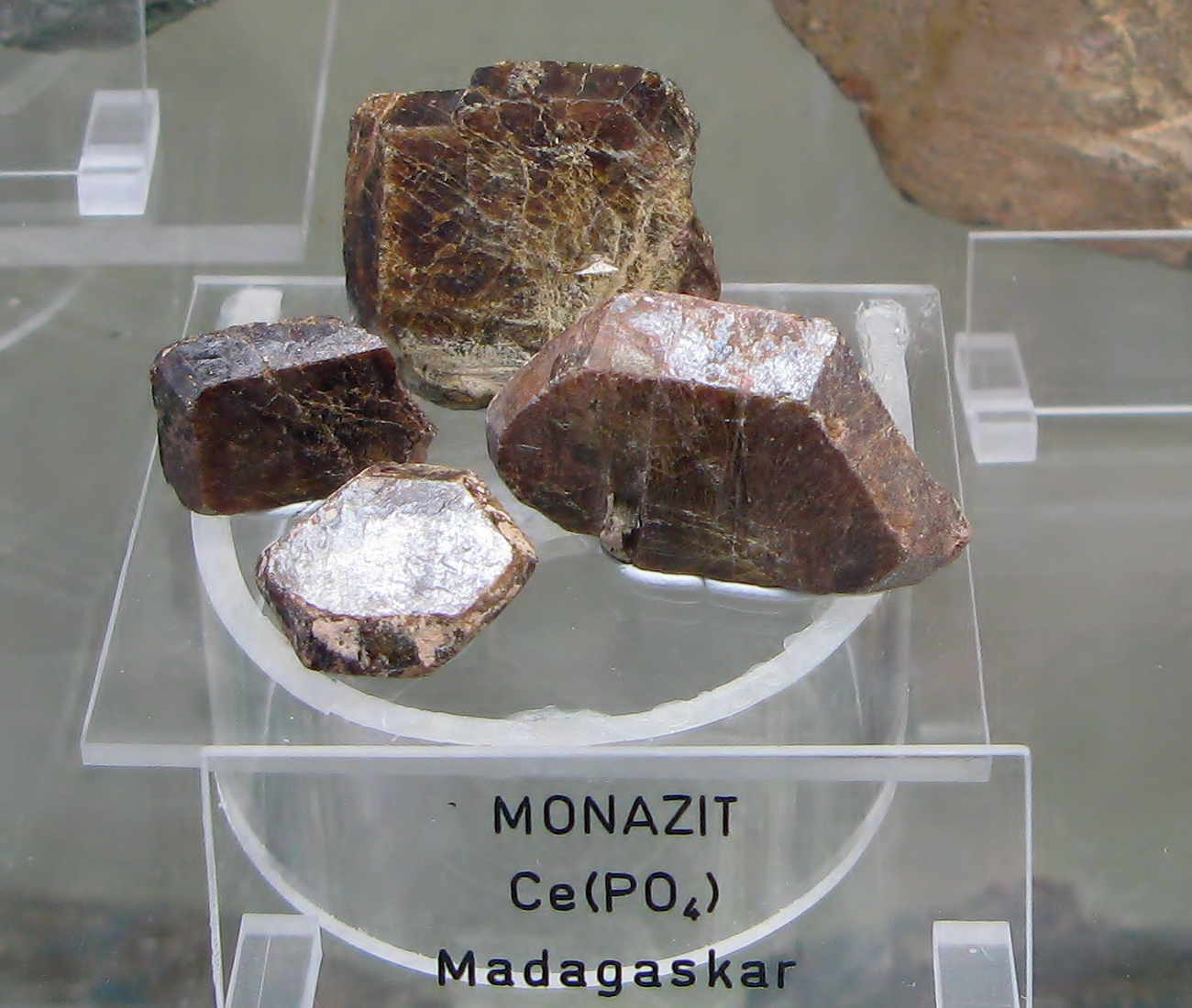 Monazite - Locality: Madagascar - Exposed in the Mineralogical Museum, Bonn, Germany